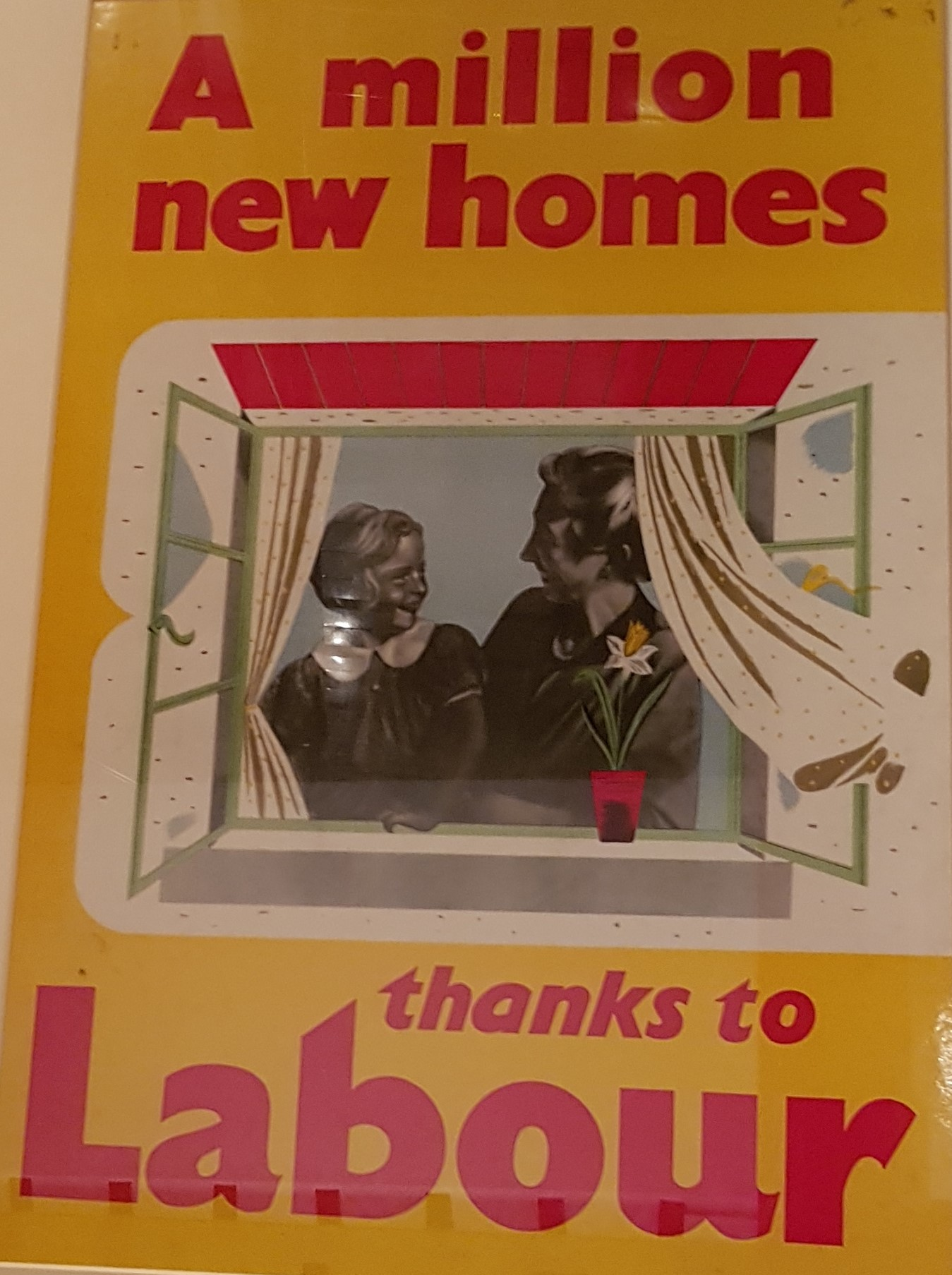 A million new homes Labour Party poster